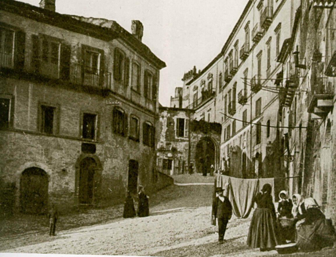 an image of the ancient city center of Chieti (Italy)